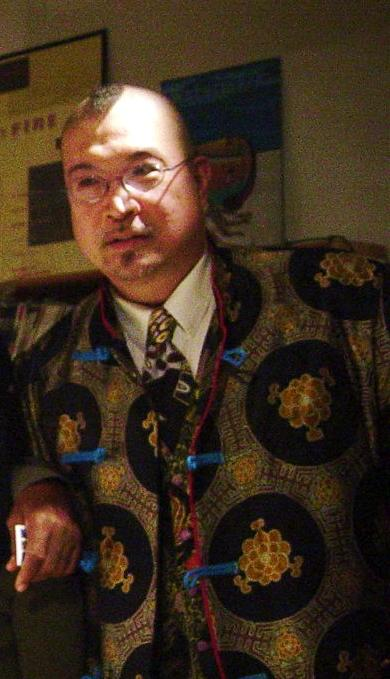 Fred Ho